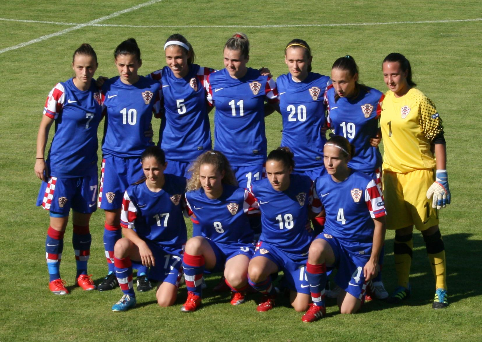 Croatia women's national football team